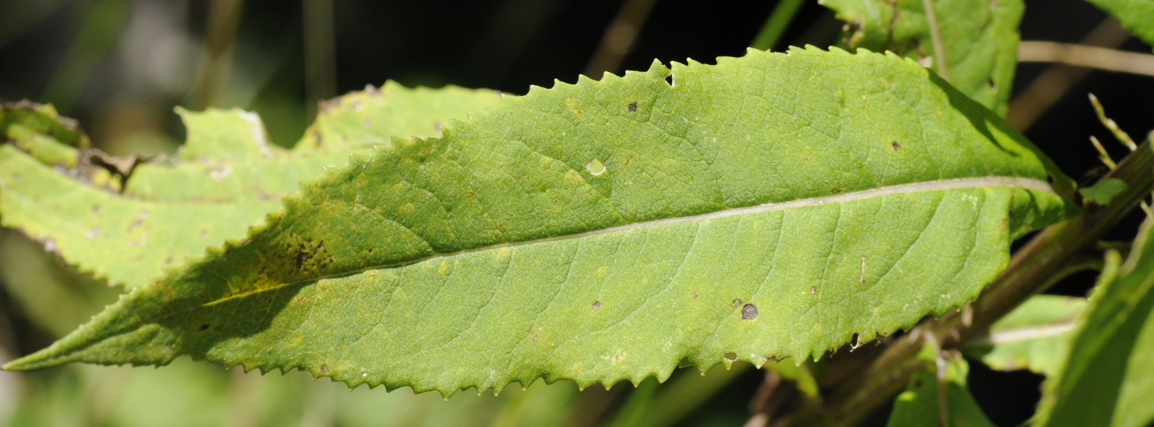 Detail of Senecio ovatus